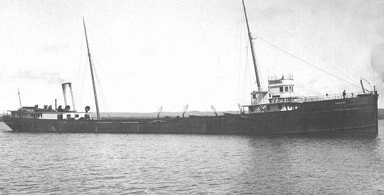 The steamer Grecian underway